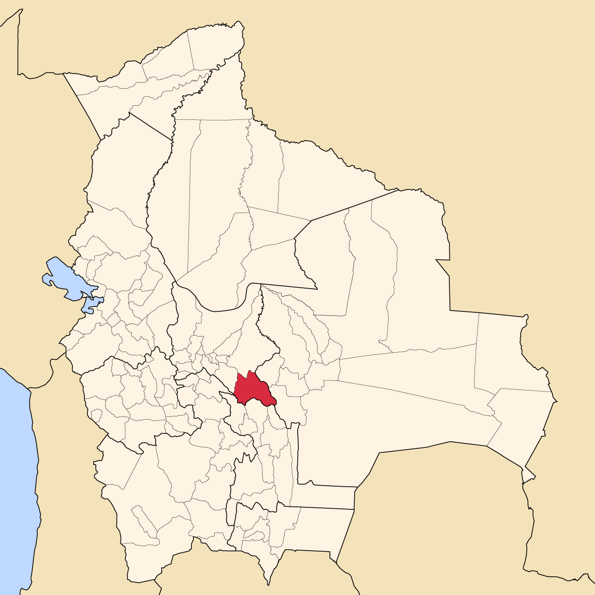 Map of Bolivia showing Narciso Campero province